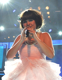 Linnea Henriksson performing at Idol 2010.